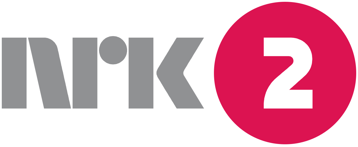 nrk 2